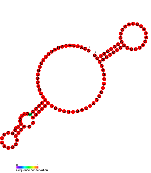 Conserved secondary structure of HSUR2.